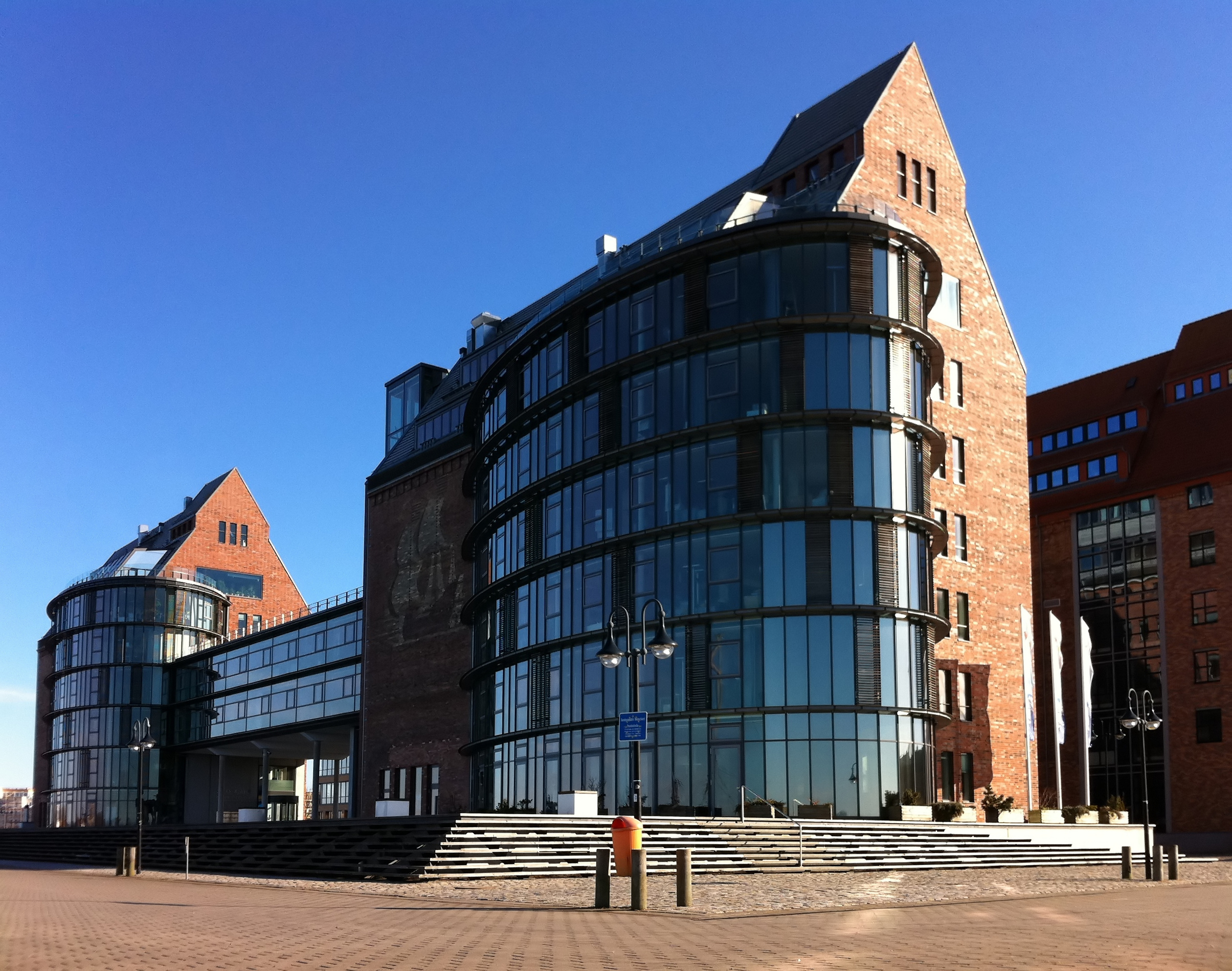 Rostock, Germany: Headquarter of German cruise line "AIDA Cruises" at Rostock Stadthafen (City Harbour)